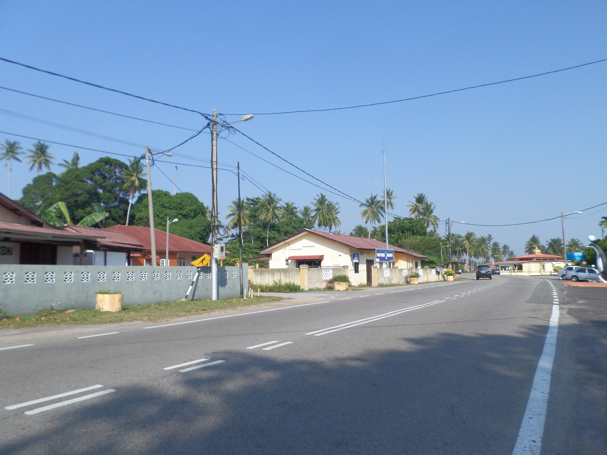 Telok Gong, Alor Gajah, Melaka, MalaysiaBahasa Melayu: Telok Gong, Alor Gajah, Melaka, Malaysia